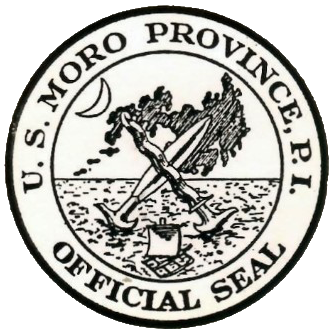 Official Seal of the former Moro Province, Philippine Islands, Territory of the United States.